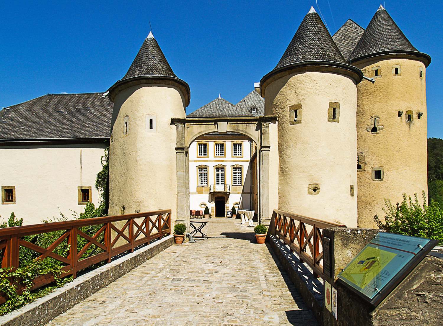 The castle in Burglinster